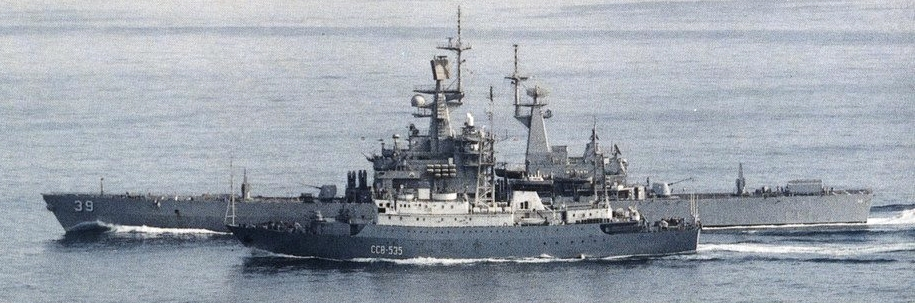 The Soviet Meridian-class intelligence collection ship Kareliya (SSV-535) steaming alongside the U.S. Navy guided missile cruiser USS Texas (CGN-39). Texas was assigned to the aircraft carrier USS Carl Vinson (CVN-70) for a deployment in the Western Pacific from 15 June to 16 December 1988.